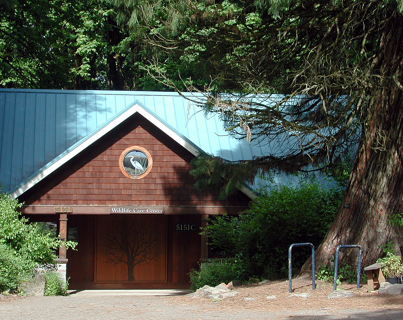 Portland Audubon Society's Wildlife Care Center, next to Northwest Cornell Road in Portland, Oregon